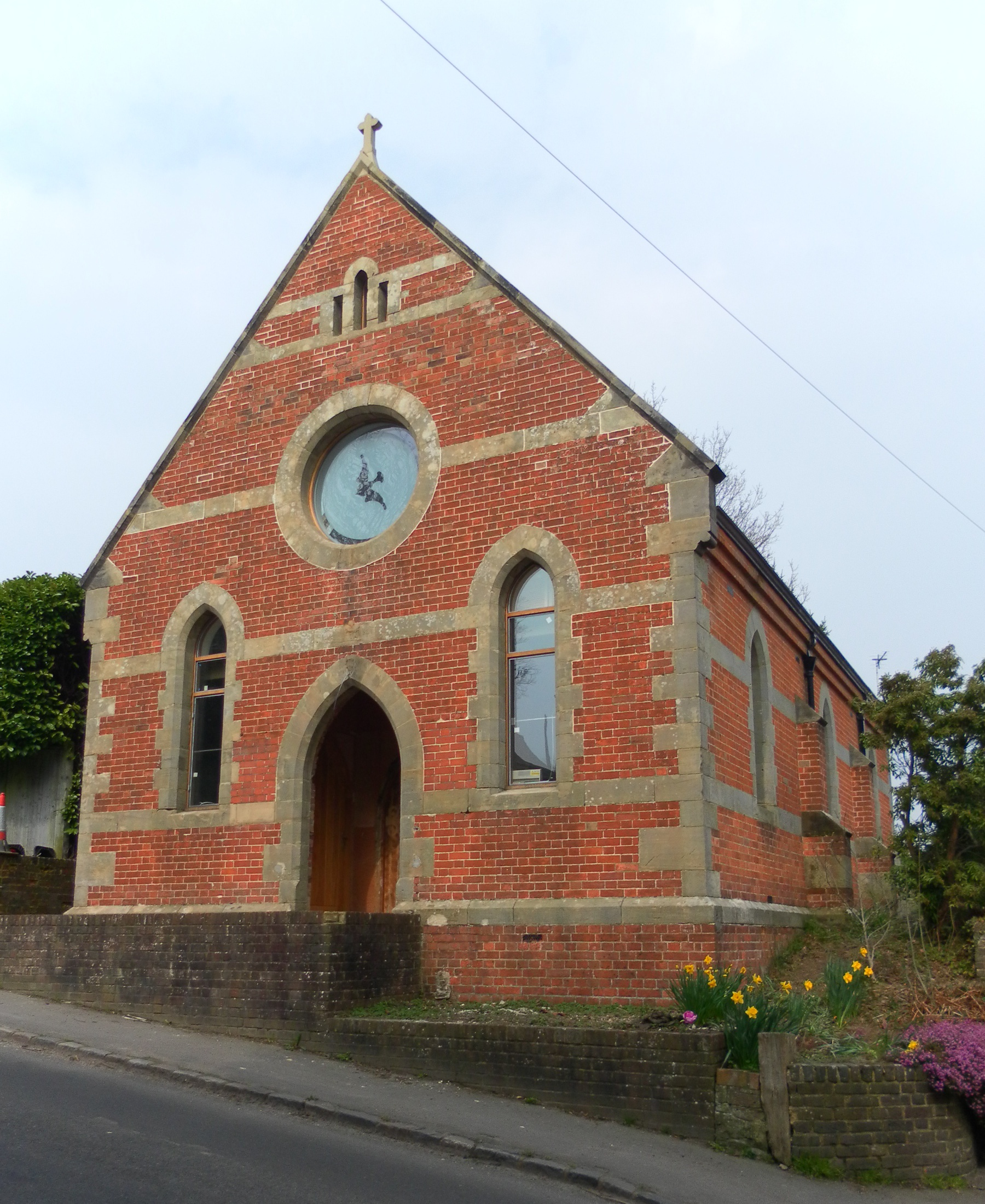 Former Methodist Chapel, Town Row, Rotherfield, Wealden District, East Sussex, England. This former chapel is now a house.